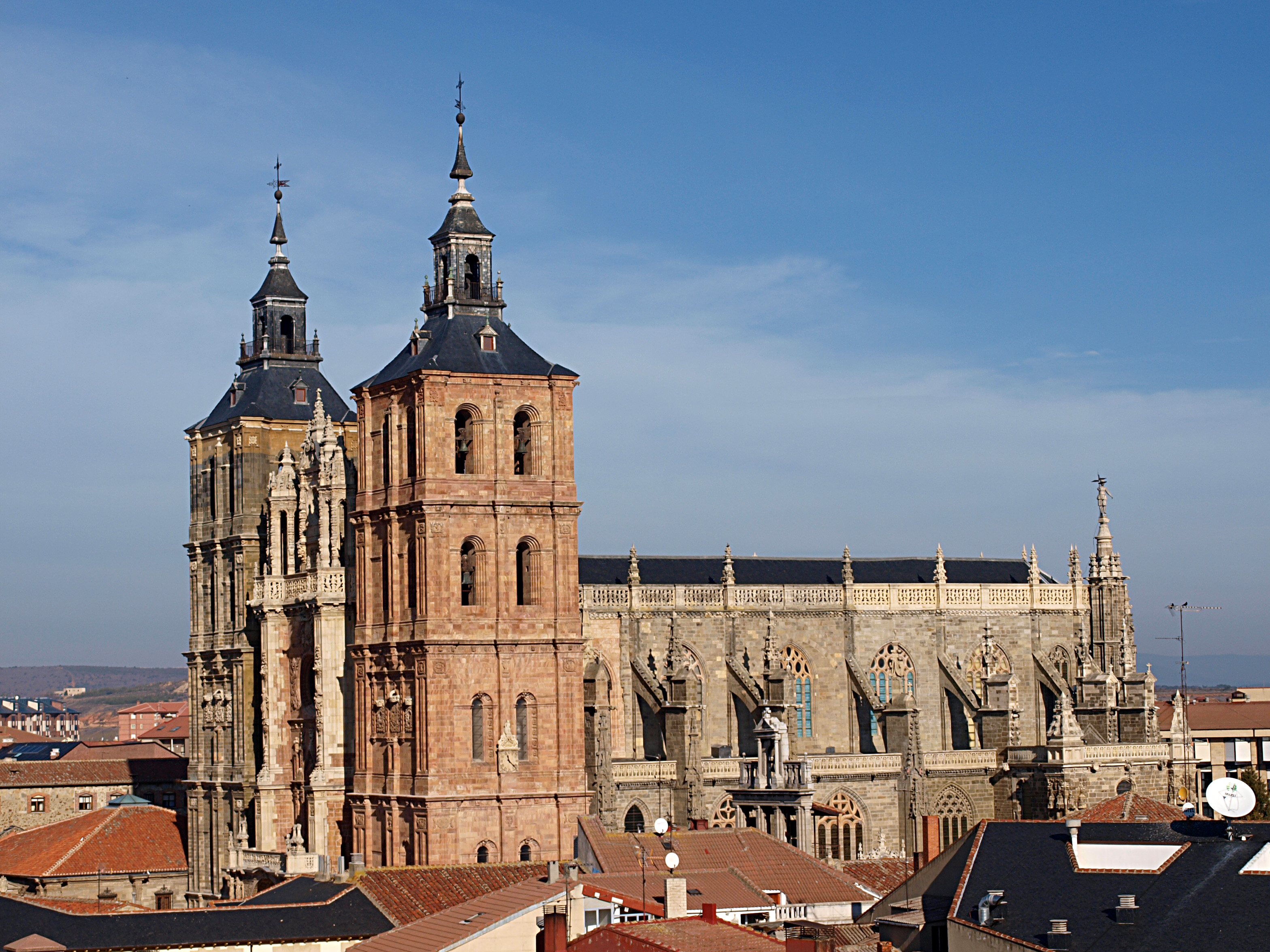 Astorga Cathedral, Astorga (Province of León, Spain).